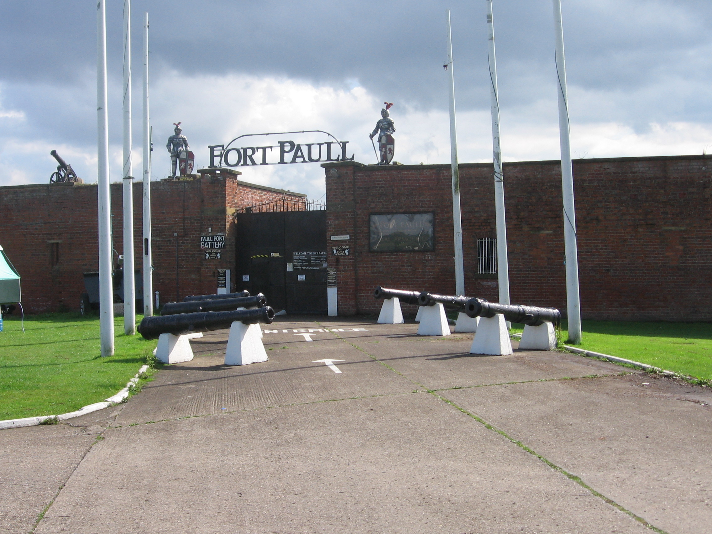 The entrance of Fort Paull, Paull, East Riding of Yorkshire, England. Photograph taken by me on 23 Jun 2007.